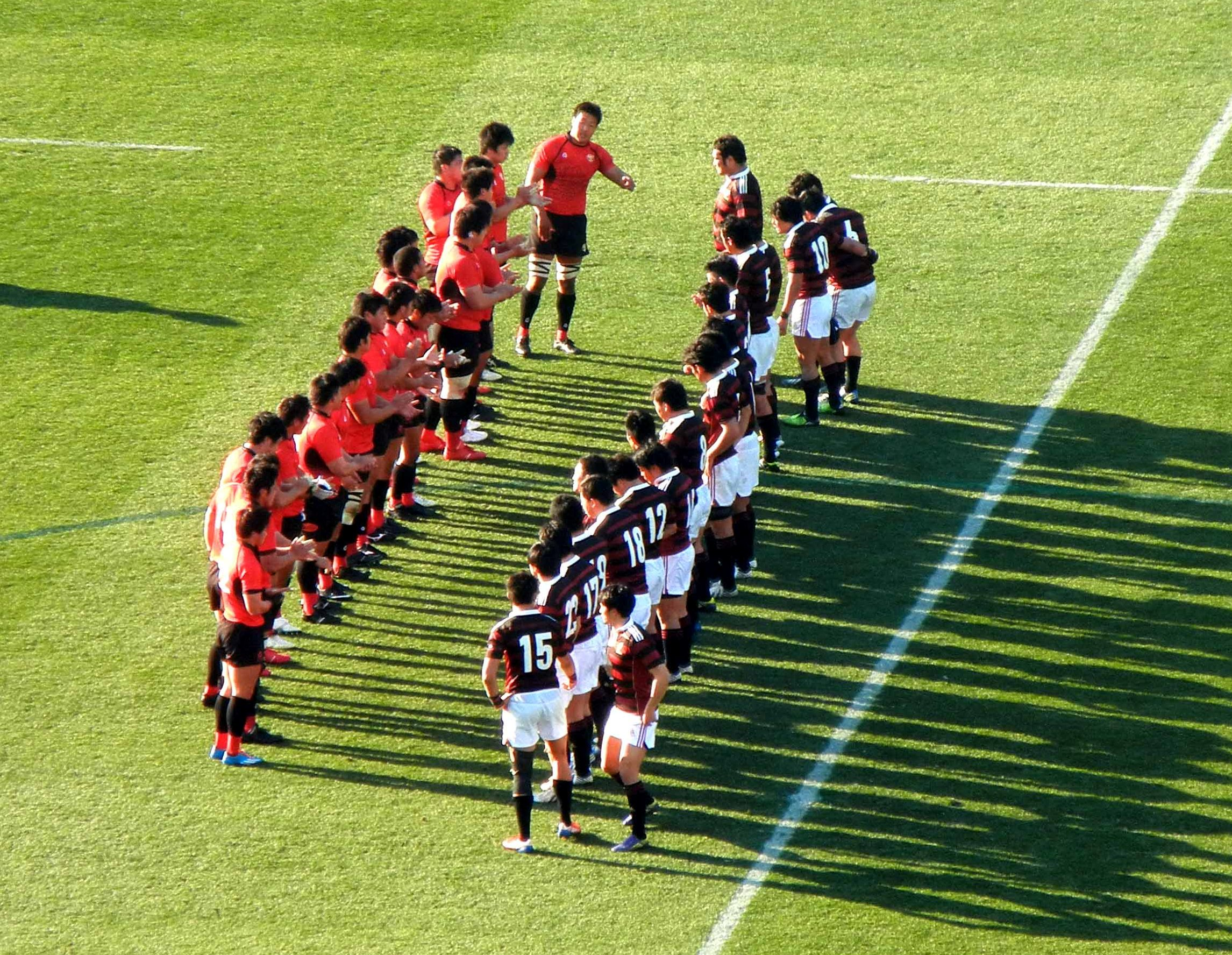 Teikyo University vs Waseda University